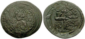 NICEPHORUS BASILACIUS, Rebel. Summer, 1078. Æ Follis (7.22 gm). Thessalonica mint. +NIKHFO ROC BAC, nimbate facing bust of Christ, raising hand in benediction and holding Gospels; A in right field / Patriarchal cross on base; IC XC NI KA around. DOC III pg. 706, N.1; P. Grierson, "Nicephorus Bryennius or Nicephorus Basilacius?" NumCirc 1976 pg. 2-3, type c; R. Bland, "A Follis of Nicephorus Basilacius?" NumChron 1992, pg. 175-6; SB 1903A. Good VF, dark green patina. Overstruck on uncertain type, and then double struck. Extremely rare and possibly the clearest strike among the fewer than ten known specimens. ($1000) Nicephorus Basilacius was a rebel general who held the city of Thessalonica during the summer of 1078, revolting against the legitimate emperor Nicephorus III Botaniates. He was overcome by Alexius Comnenus, a loyal general, but one who soon turned against Botaniates when Alexius' brother-in-law, Nicephorus Melissenus, also revolted. When DOC III was published in 1973, neither of the two specimens known at that time had any visible legend, so the type was called Class N Anonymous folles. Between 1976 and 1991, additional examples were discovered, rendering among them the complete obverse legend. This specimen shows an A in the right field by the shoulder of Christ, a detail not visible in any of the published specimens.